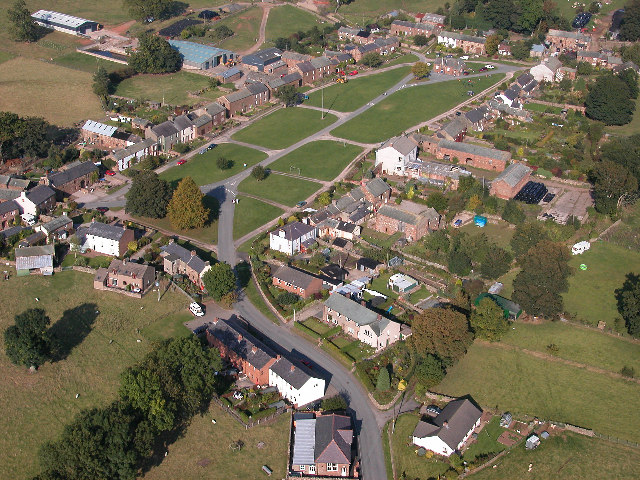 Milburn Village, Eden Valley, Cumbria, Great Britain. This pretty fellside village, a classic example of a medieval fortified village with a central geen, is the significant feature of this area.